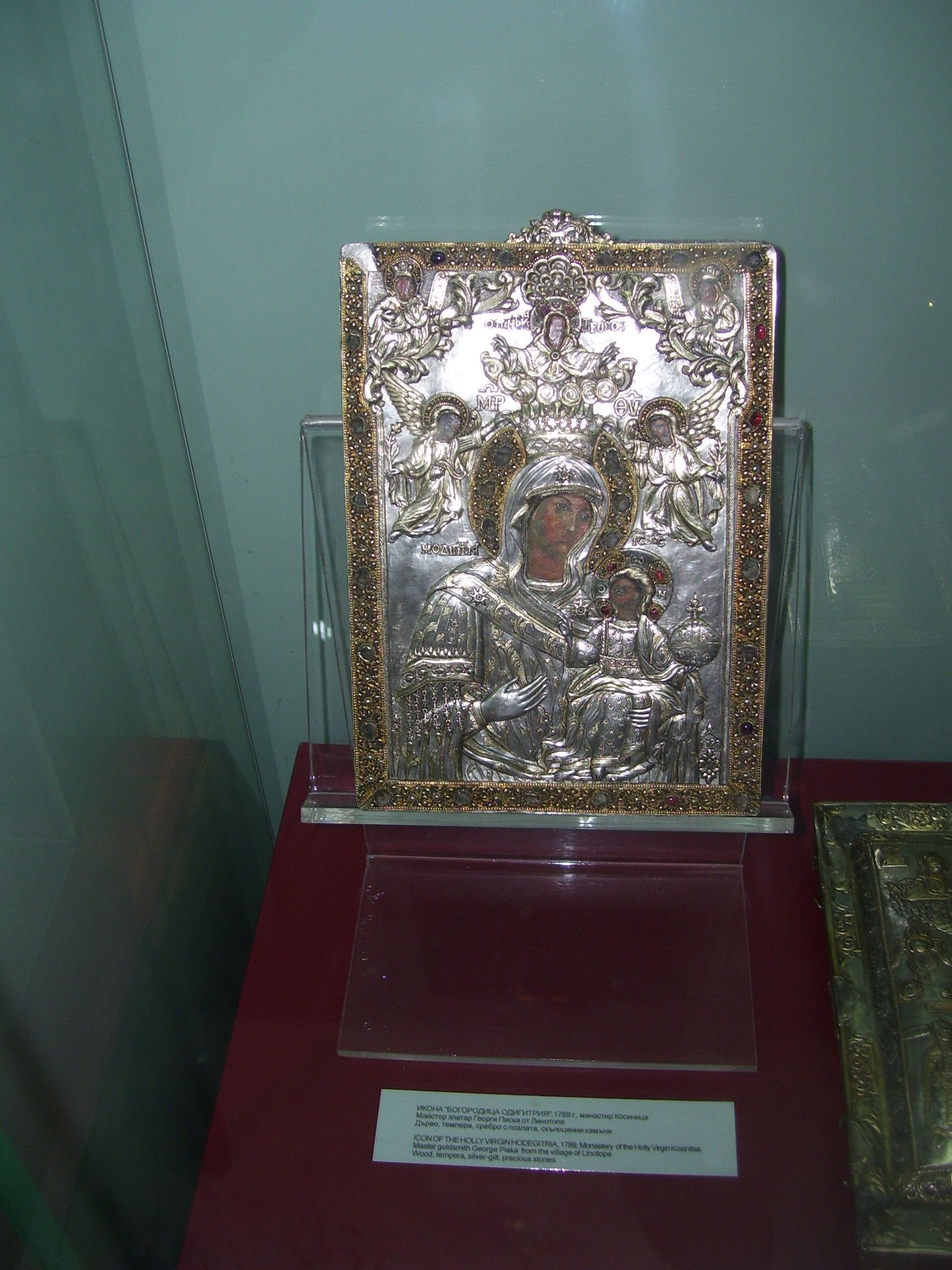 Greek icon of St Mary Odigitria originated from the Panagia Ekosifinissa Monastery (Greece) (Ikosifinisa or Kushnitsa Monastery), captured by the Bulgarian occupation army during the Second Bulgarian Occupation of Eastern Macedonia (1916-1918, World War I) and now on display at the National Historical Museum of Bulgaria. Wood, tempera, silver gilt, precious stones.